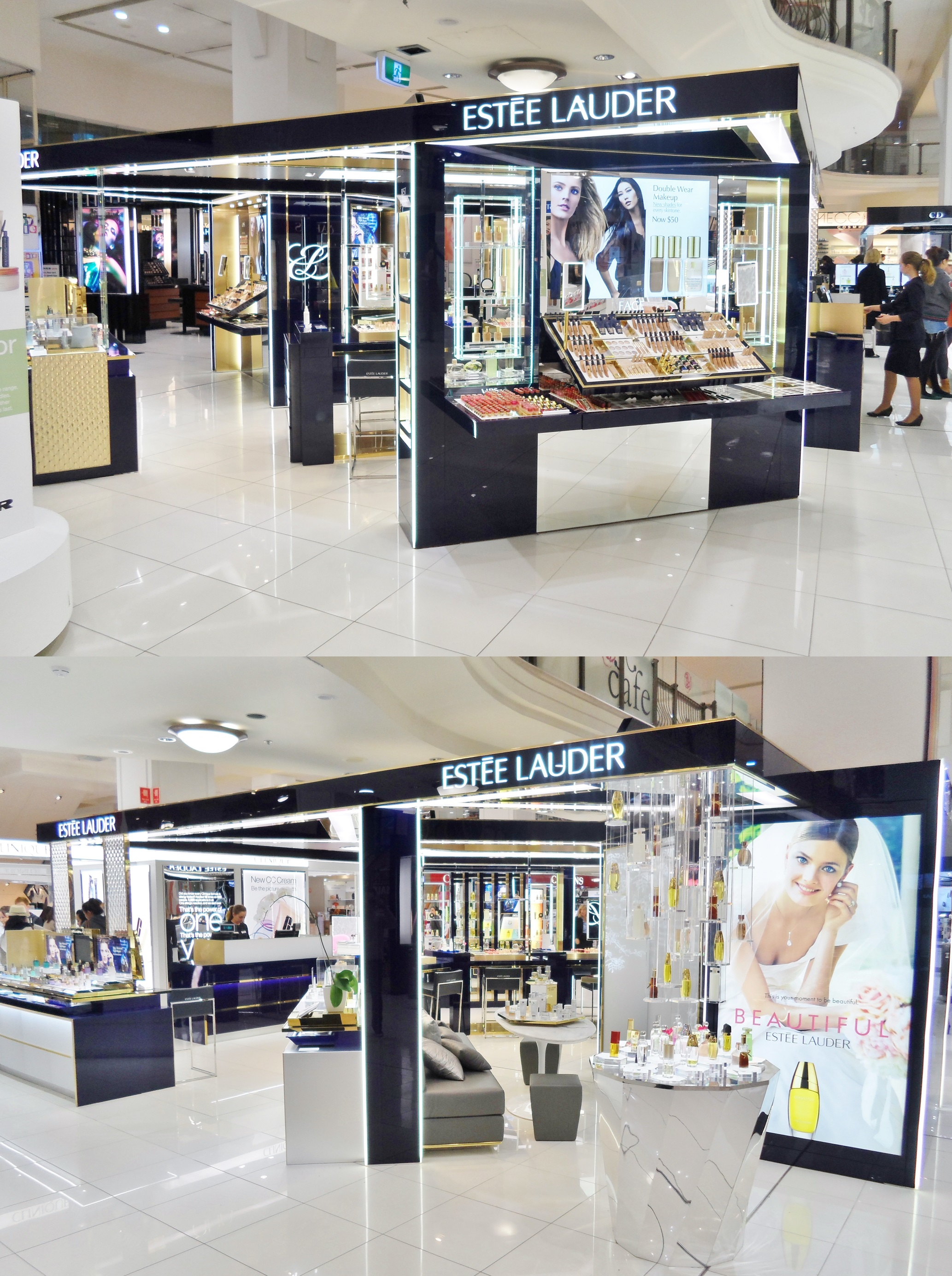 The large Estée Lauder cosmetics counter at the Sydney City branch of Australian department store MYER.